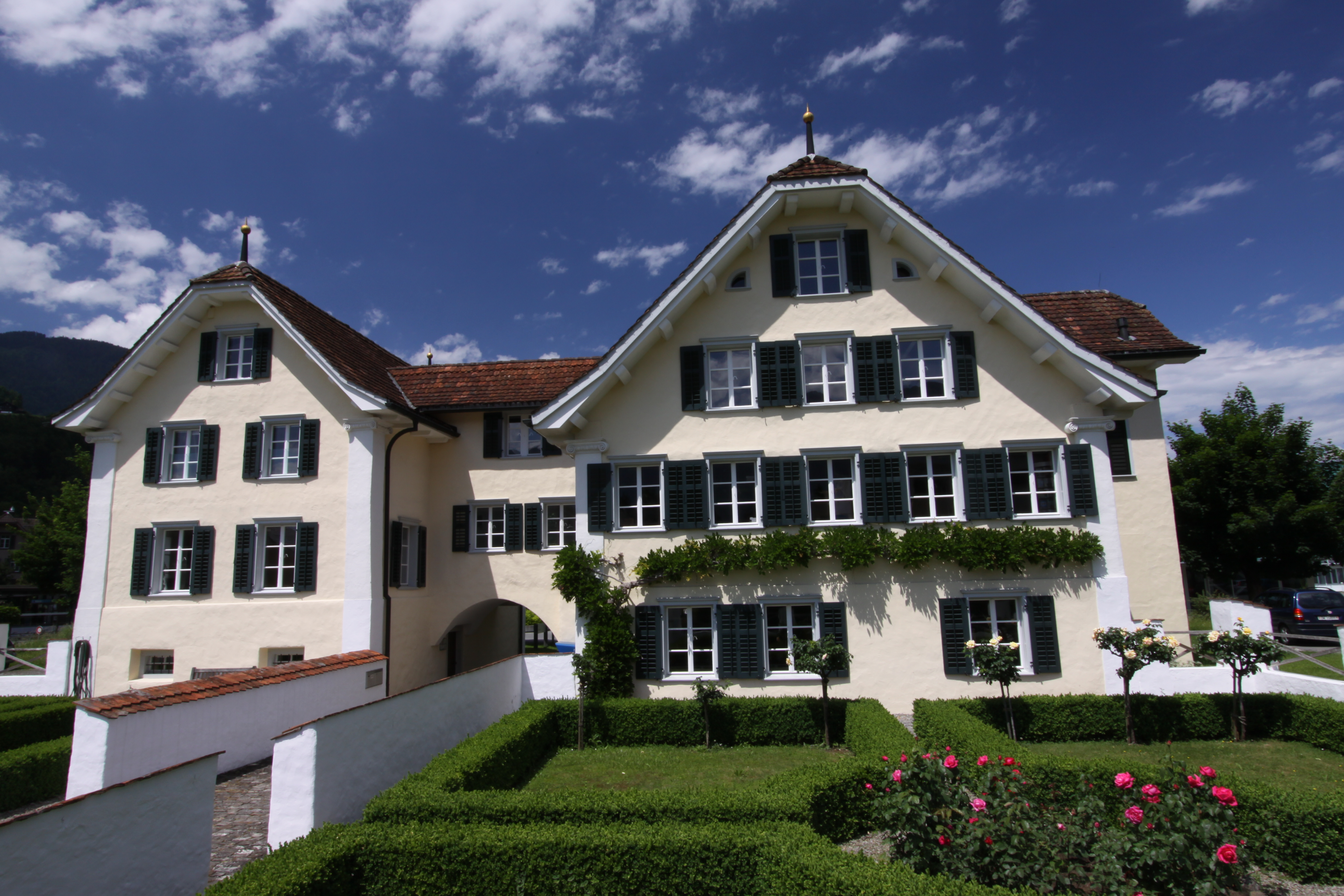 Grundacher House, Gesellenweg 4, Sarnen